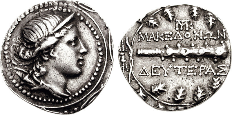 MACEDON (Roman Protectorate), Republican period. Second Meris. Circa 167-149 BC. AR Tetradrachm (12.42 g, 10h). Thessalonika mint. Diademed and draped bust of Artemis right, bow and quiver over shoulder, in the center of a Macedonian shield Club in the middle, between ΜΑΚΕΔΟΝΩΝ (up) e ΔΕΥΤΕΡΑΣ (down); monogram above; all within oak wreath, thunderbolt to left. SNG Copenhagen -; AMNG III/2, 41; Jameson 1993 (same dies). Good VF, toned, edge clipped and filed (probably to fit bezel, since removed). Extremely rare.